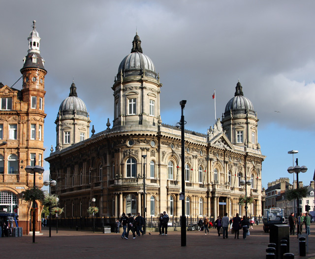 The Maritime Museum, Hull, East Riding of Yorkshire, England.The main entrance to this museum looks out onto Queen Victoria Square, from which this photograph was taken.